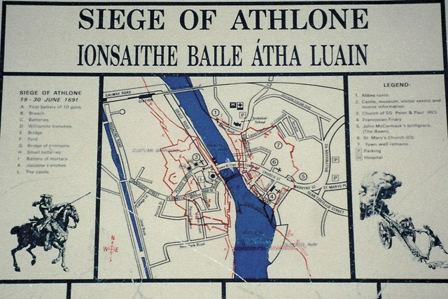 Athlone - Siege of Athlone sign